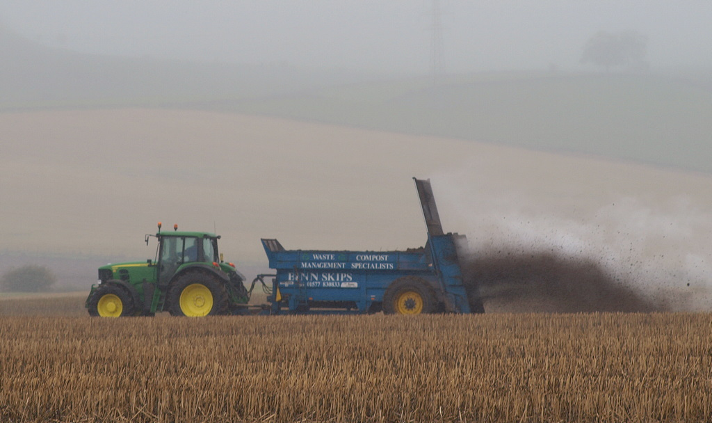 "Just the job for a rainy day, muck spreading at Findatie Farm, Kinross. The spreading machine is hired out by Bein Skips who own the Bein Inn as well." Scotland, UK